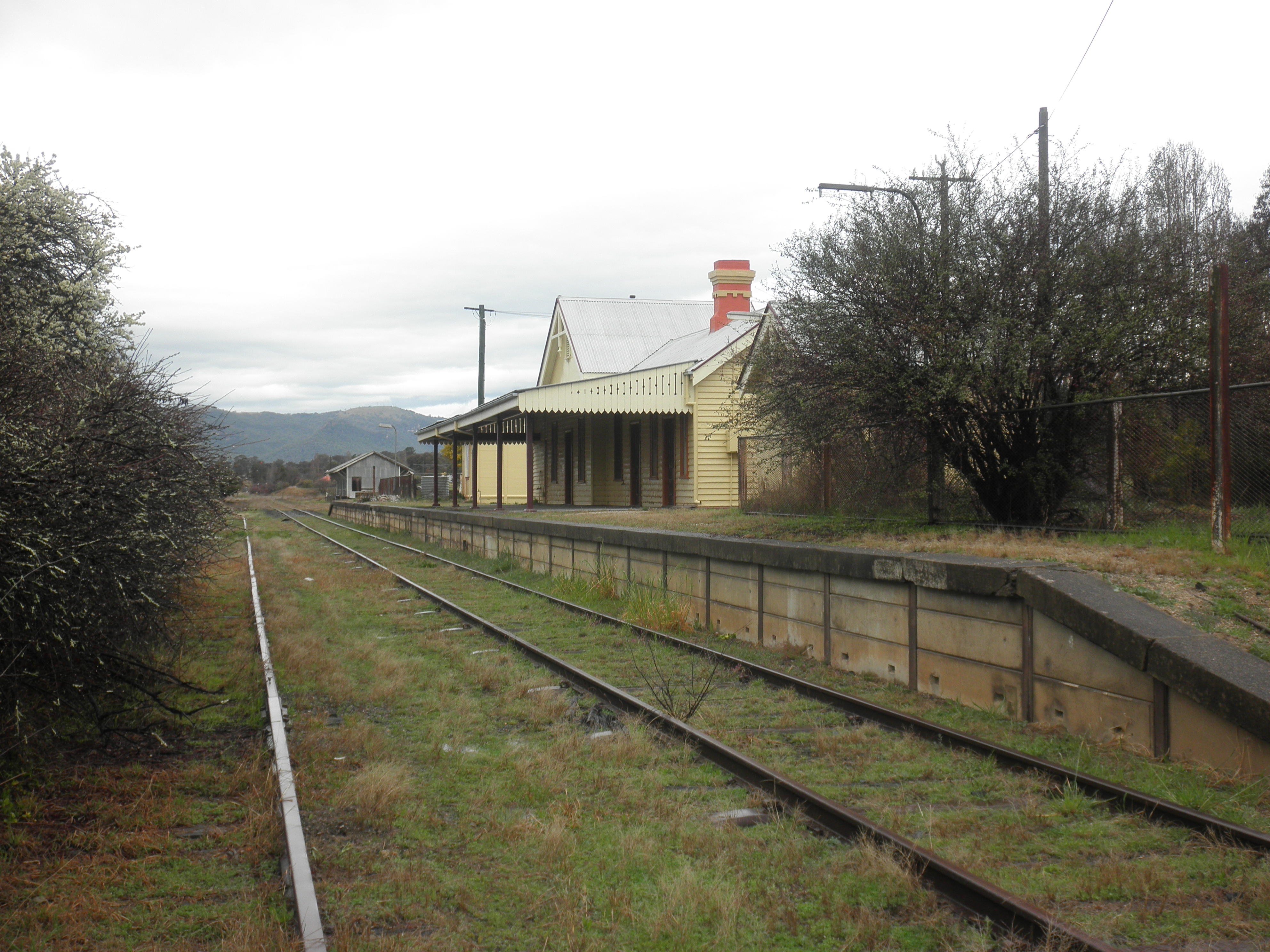 Rylstone Railway Station, NSW, Australia. Line: Gwabegar Line Location: (149.9751°, -32.7957°) [exact] GDA94 Distance: 257.210 km from Sydney Opened: 9-Jan-1884 photo taken September 2011